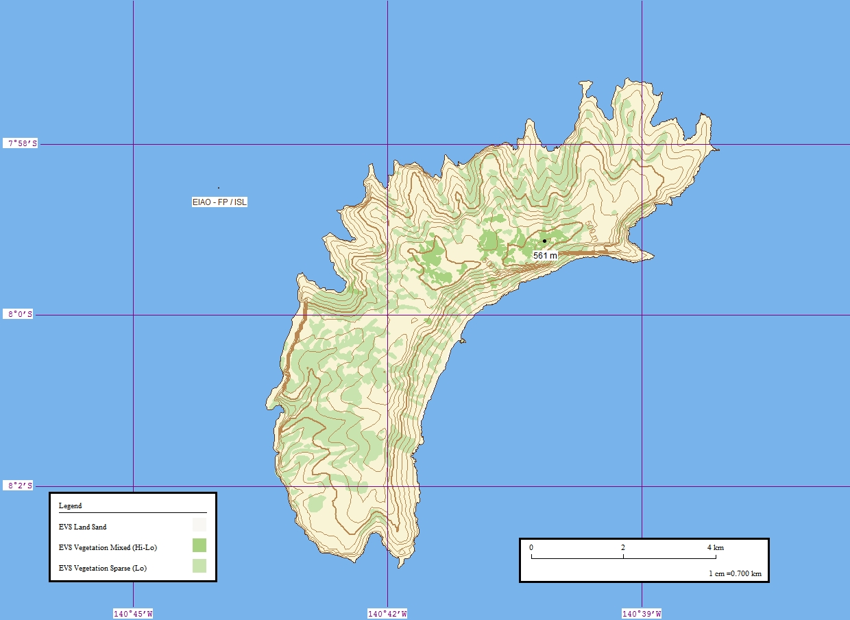 Map of Eiao Island, Marquesas Islands, French Polynesia